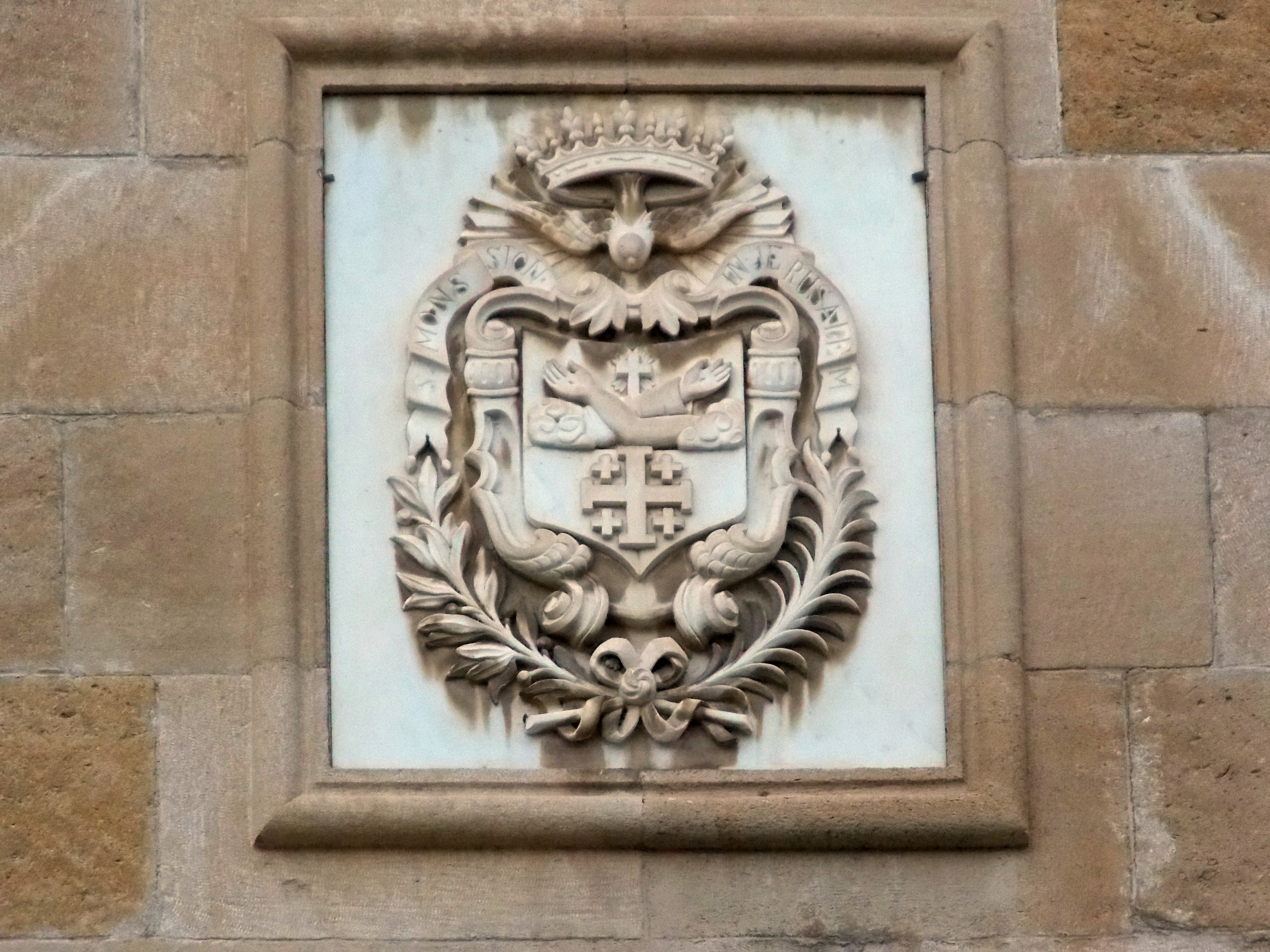 Coat of Arms of the Holy Land custodia on the facade of the catholic church "Feast of the Cross".